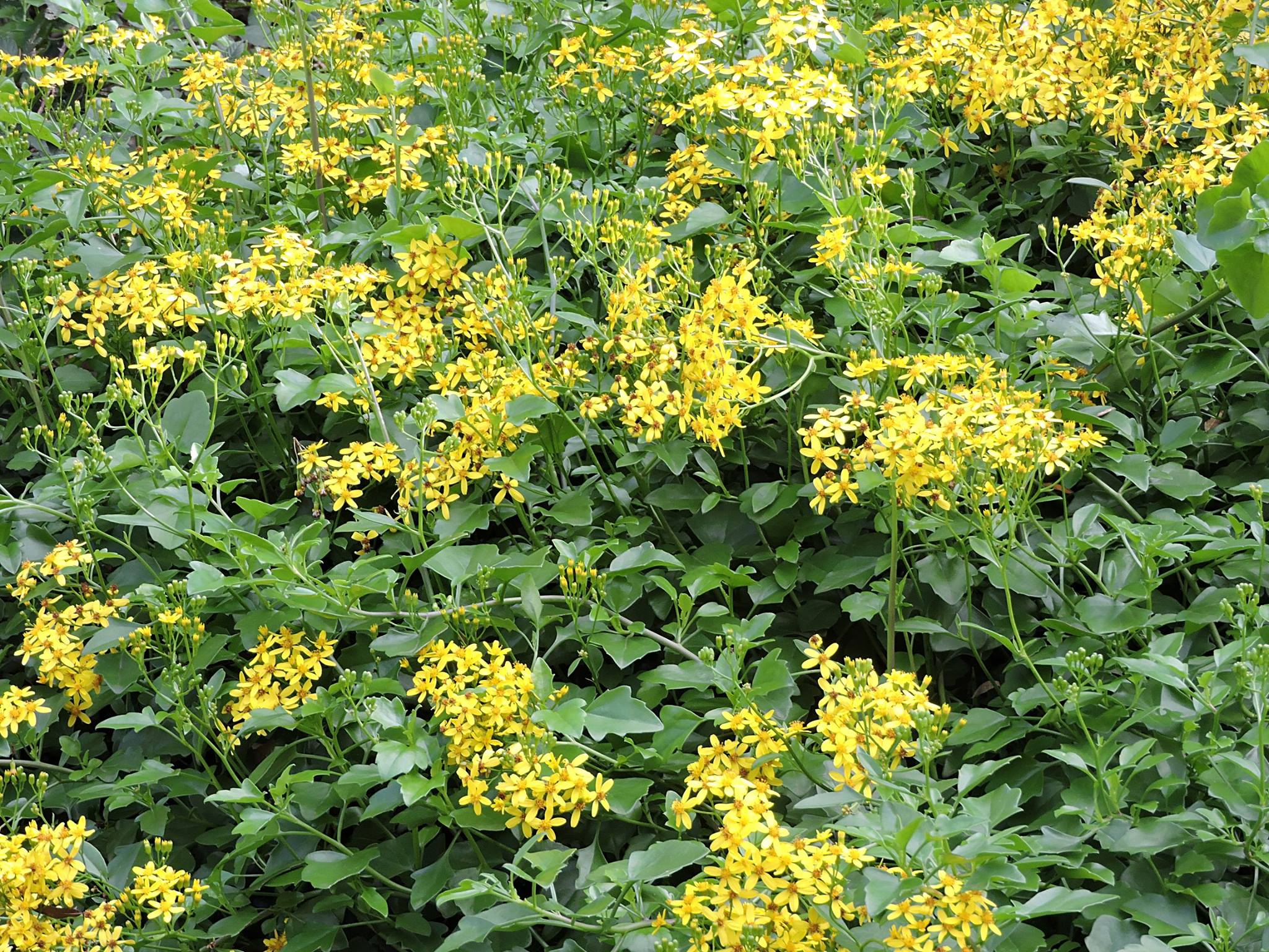 Cape Ivy in a groundcover setting with yellow flowers and cat paw-like foliage.